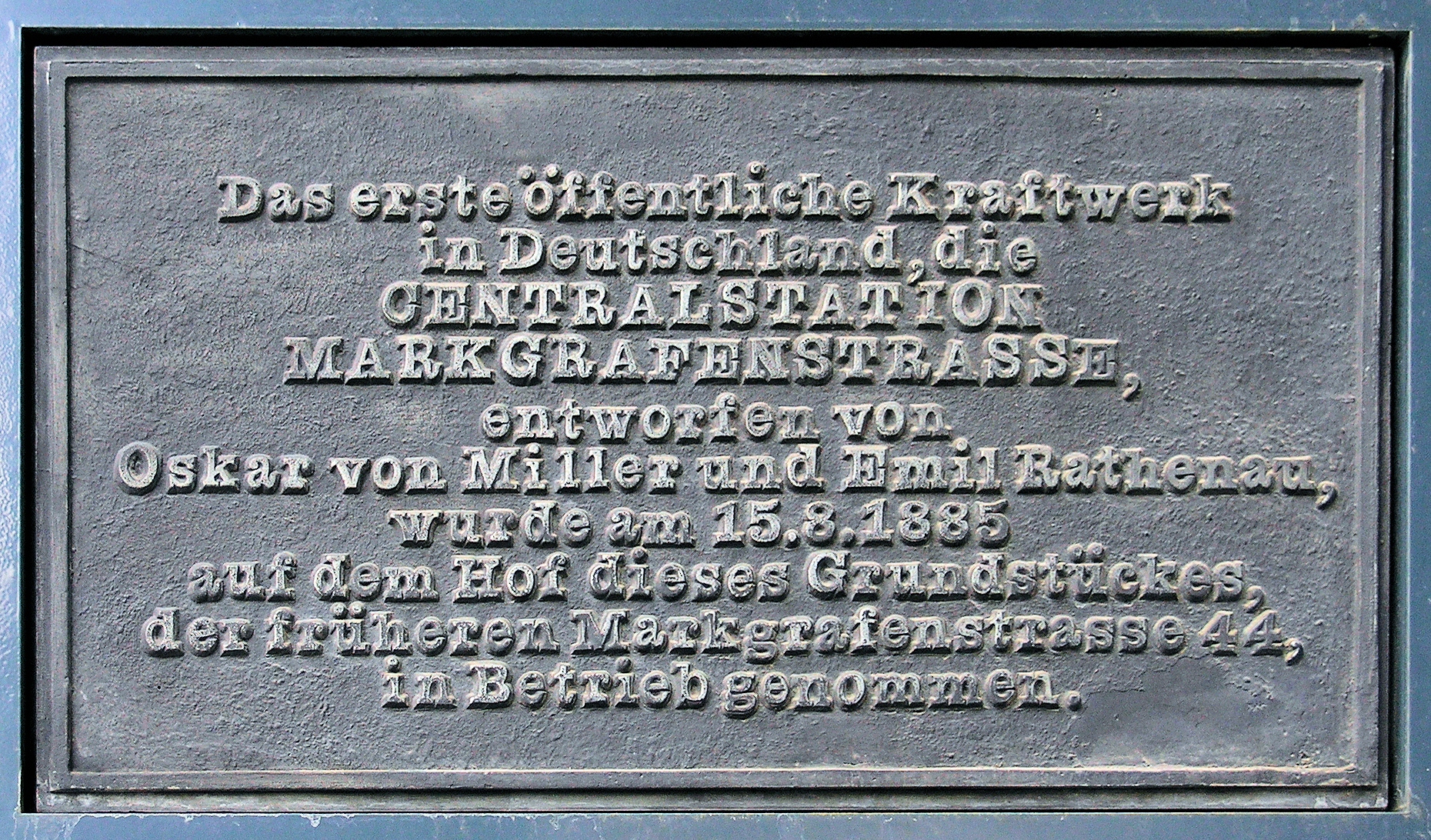 Commemorative plaque, Centralstation Markgrafenstraße, first central power station in Germany, Markgrafenstraße 35, Berlin-Mitte, Germany Koordinate:52°30′46″N 13°23′36.2″E / 52.51278°N 13.393389°E